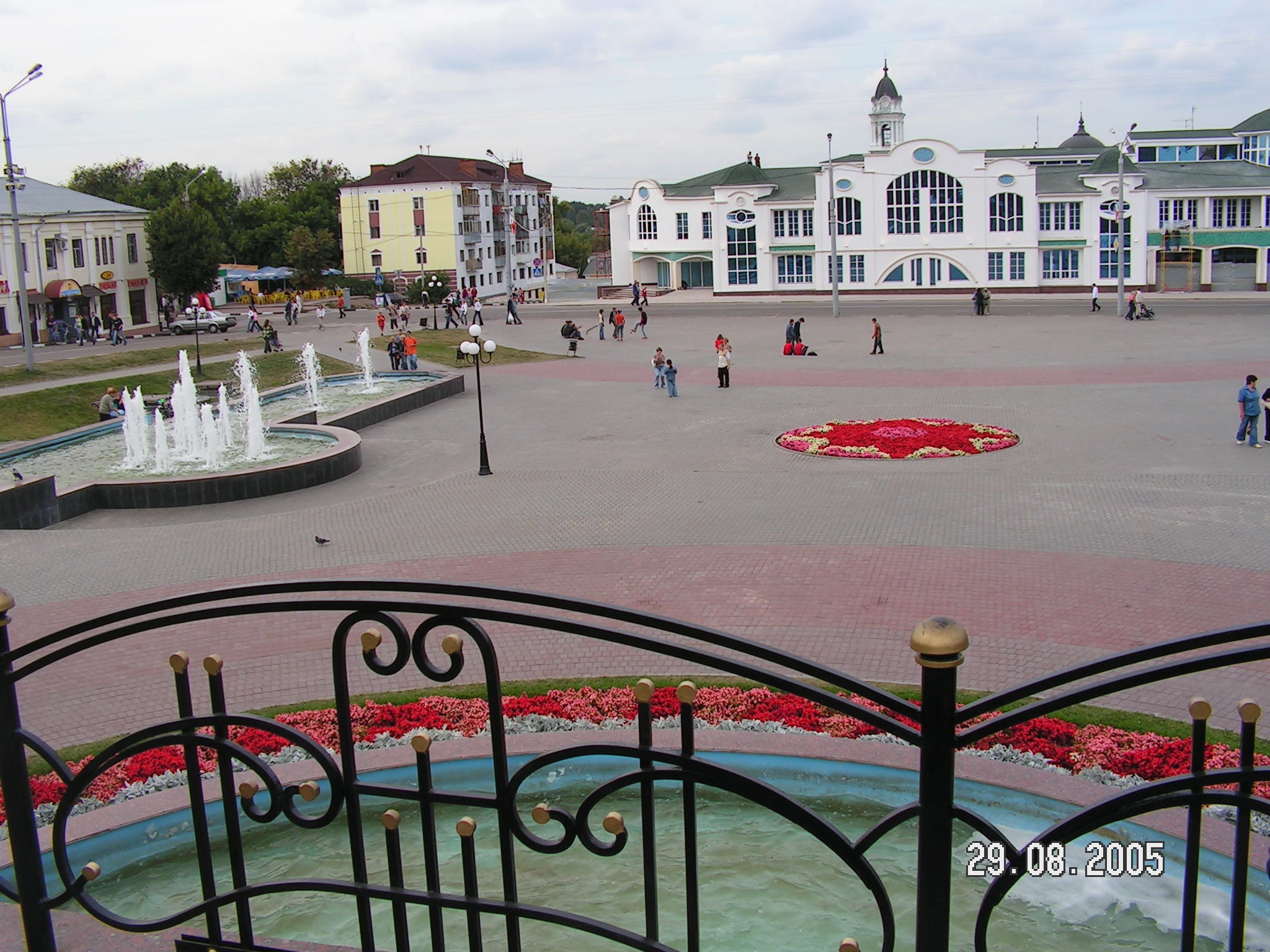 Noginsk, Moscow Oblast', Central Square View 1